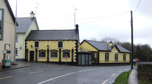 The Bridge Tavern, Canningstown, Co. Cavan Alongside the R191 between Cootehill and Bailieborough.